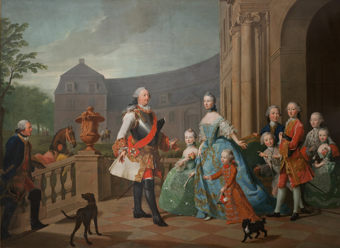 Portrait of Karl August, Prince of Waldeck and Pyrmont (1704-1763)